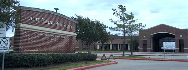 The main entrance of Alief Taylor High School